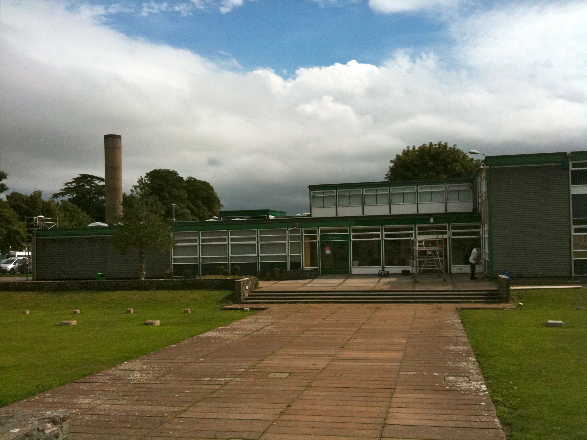 Entrance to The Kings of Wessex School in Cheddar. The concrete plinths on the grass mark out the location of the former Saxon palace